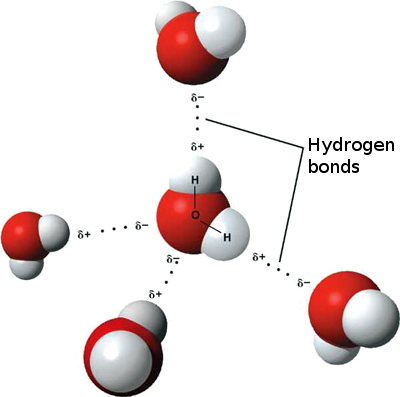 Model of hydogen bonds in water in English.